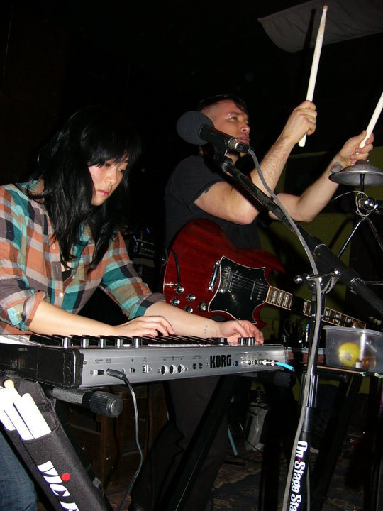 Xiu Xiu in 2010